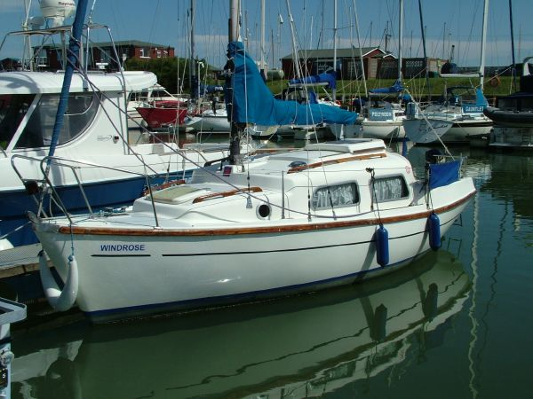 Leisure 23 old